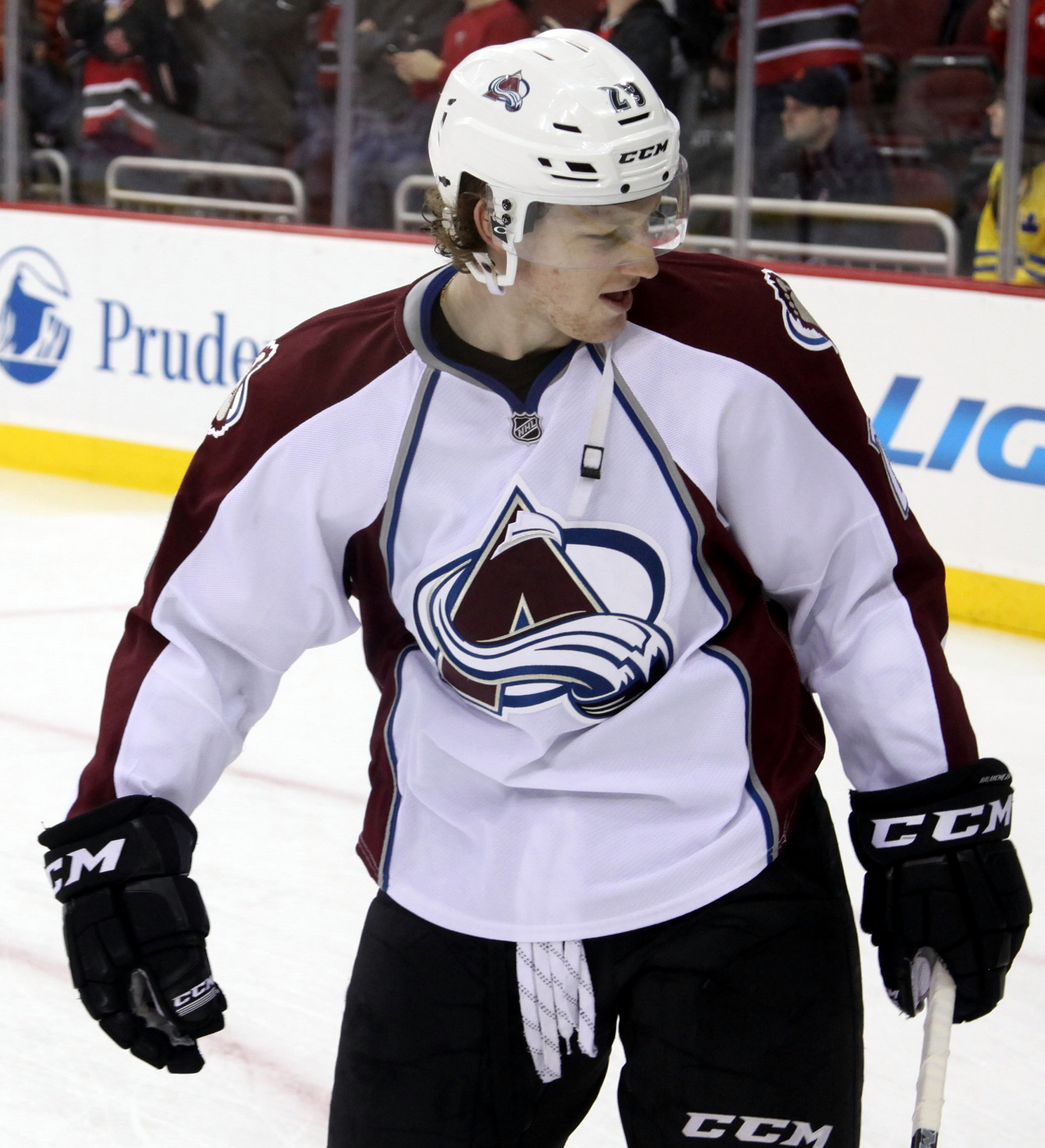 Nathan MacKinnon in November 2014.